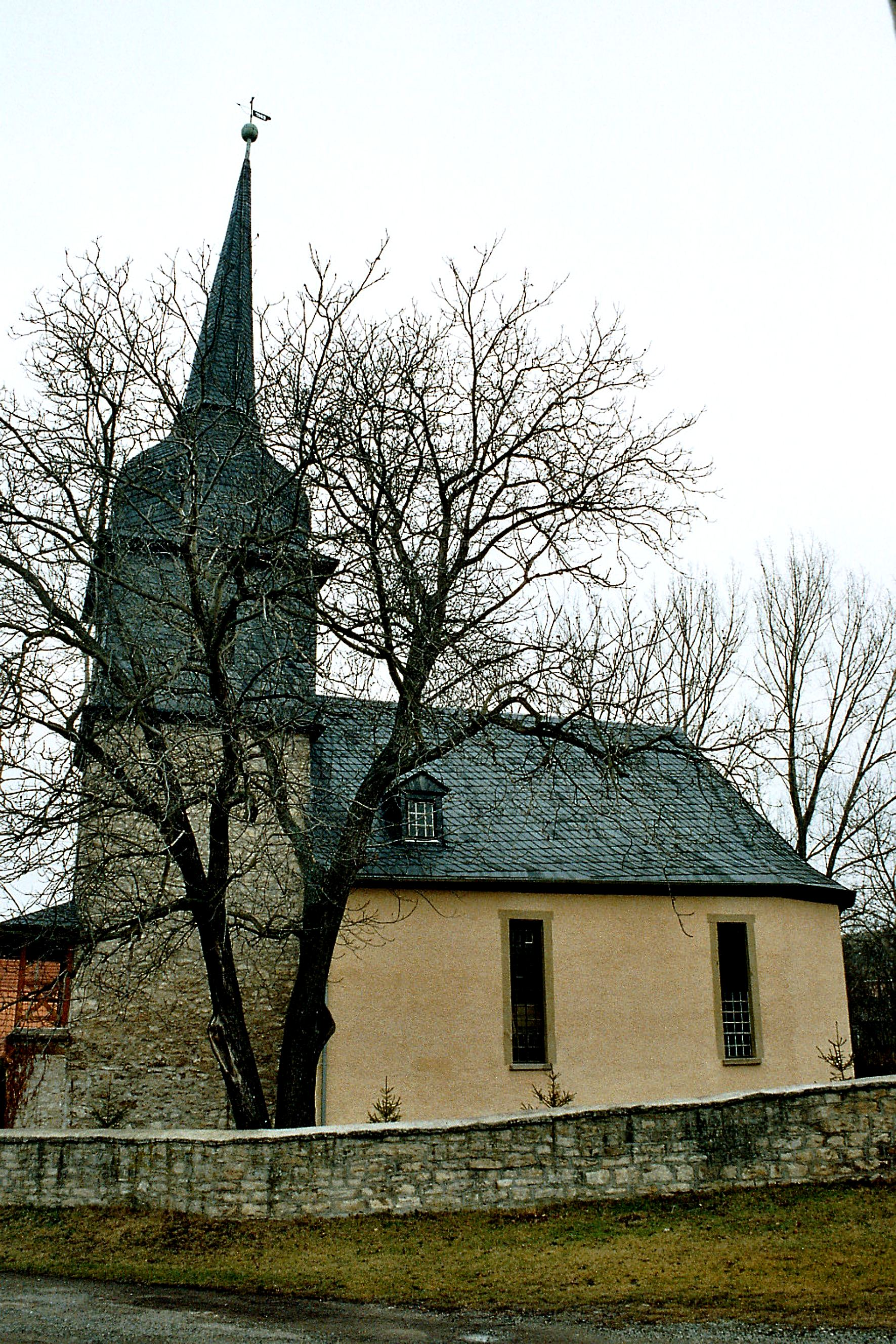 The village church